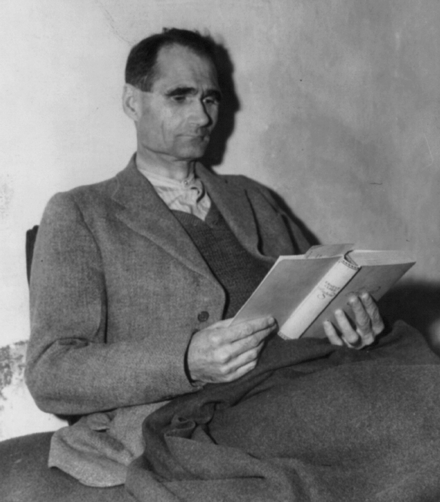 Rudolf Hess reading the book Jugend by Ernst Claes in Landsberg Prison.